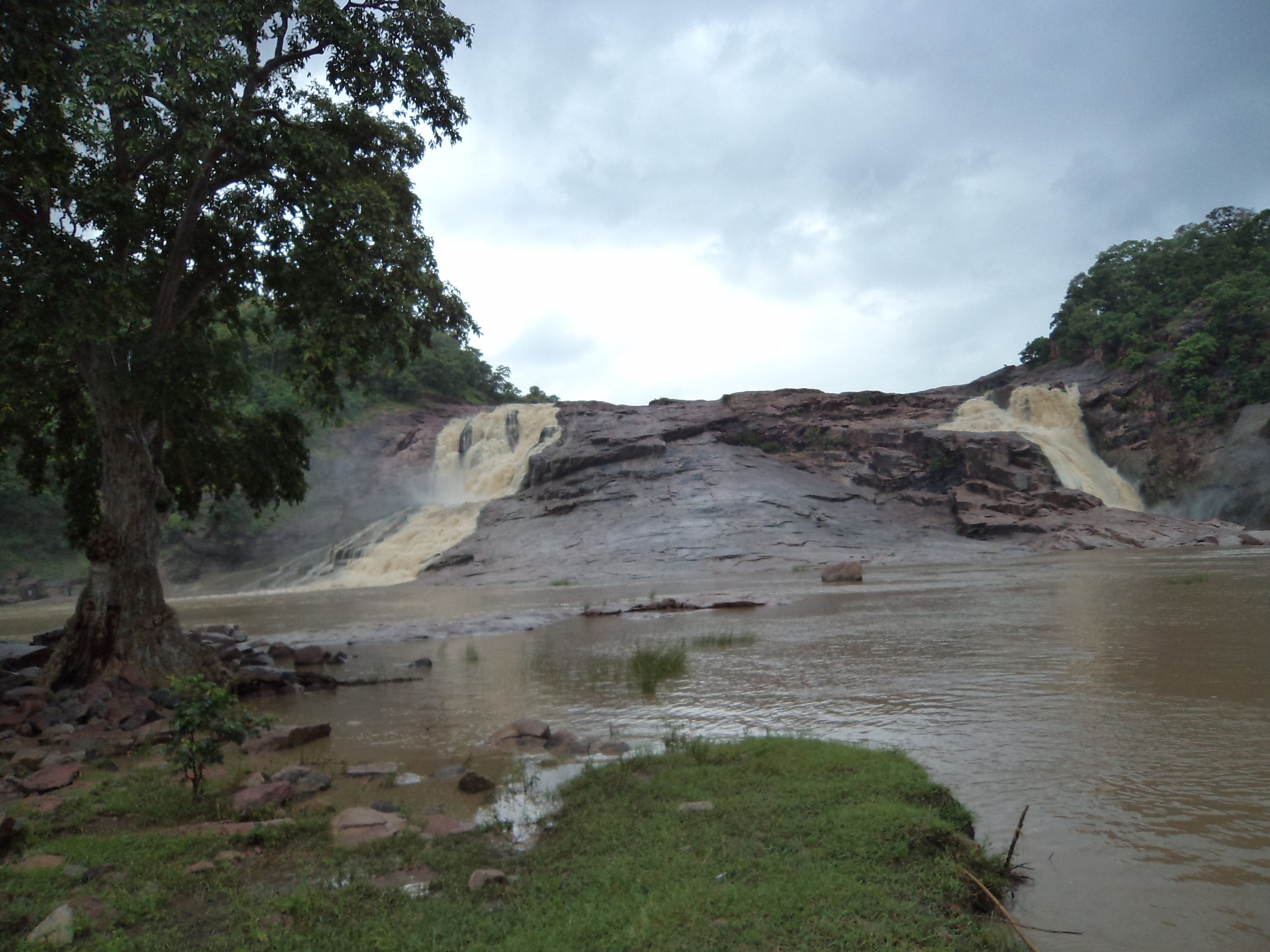 kuntala waterfalls, both streams